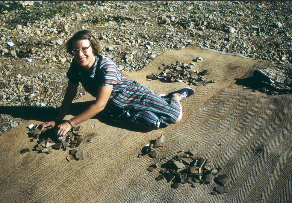 Image from the Paul and Nancy Lapp collection at ACOR